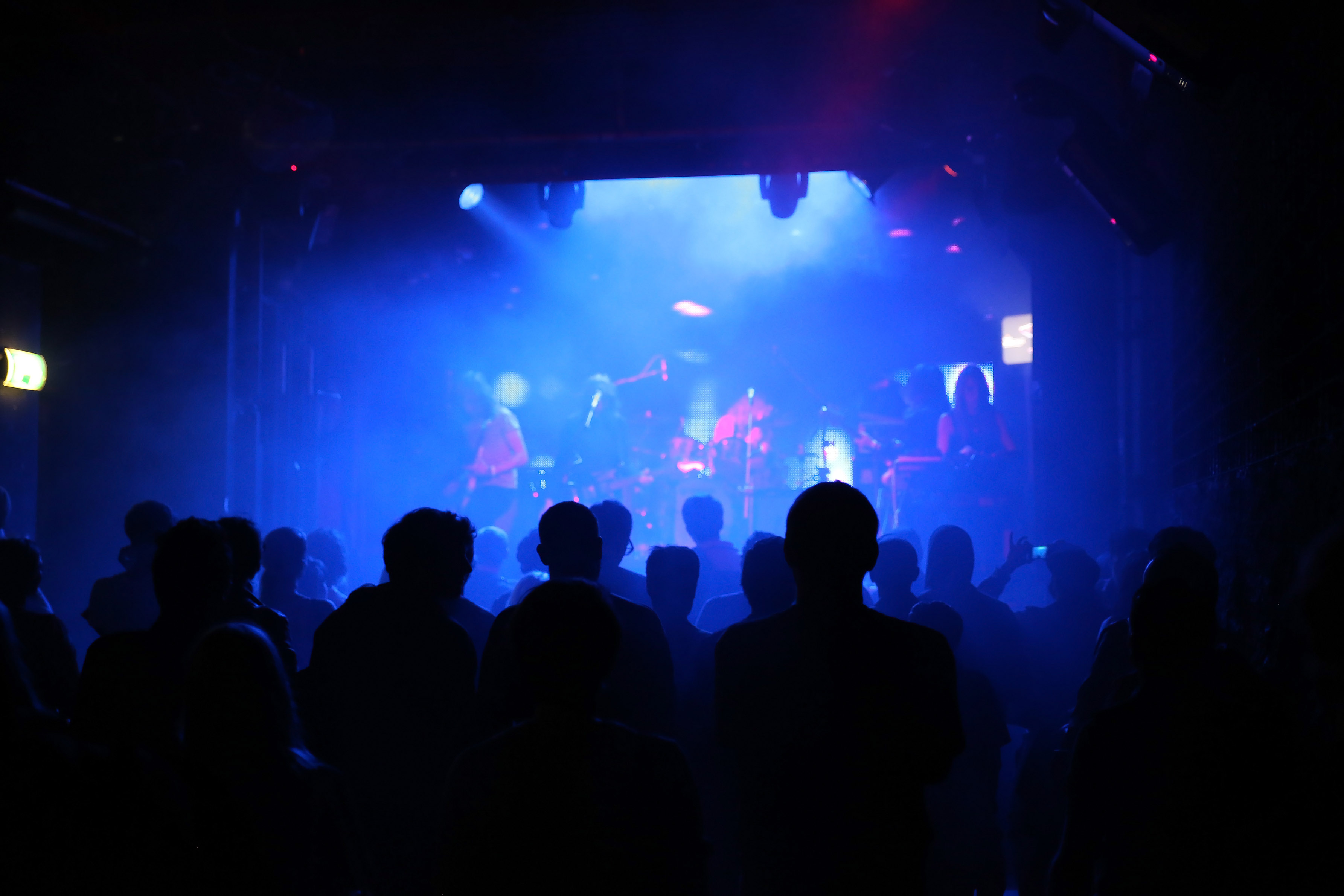 Toy - concert at Flex during Waves Vienna Music Festival & Conference 2012 in Vienna, Austria.